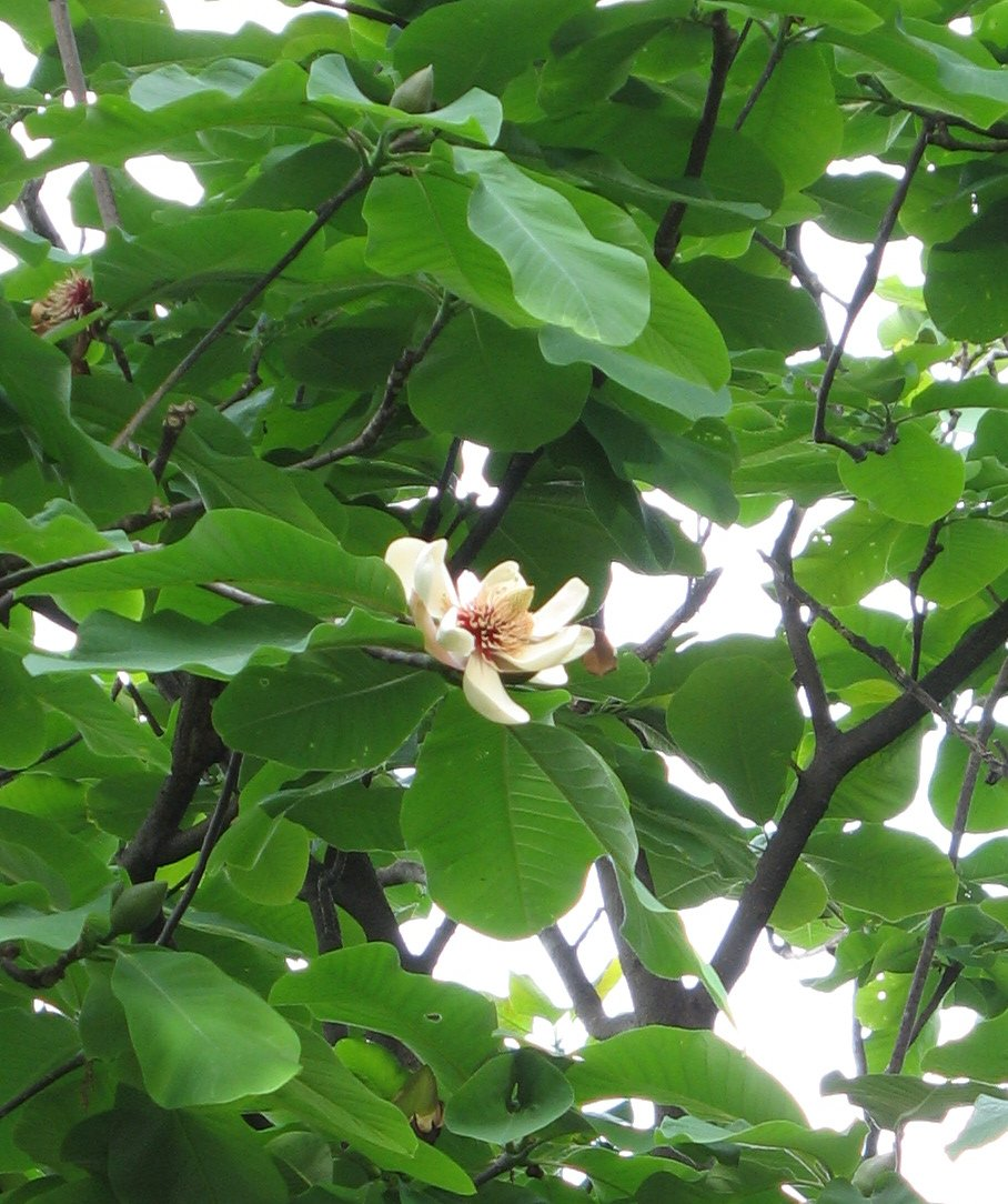 Photograph of Magnolia hypoleuca,taken in Machida city, Tokyo, Japan. (cropped and resized)